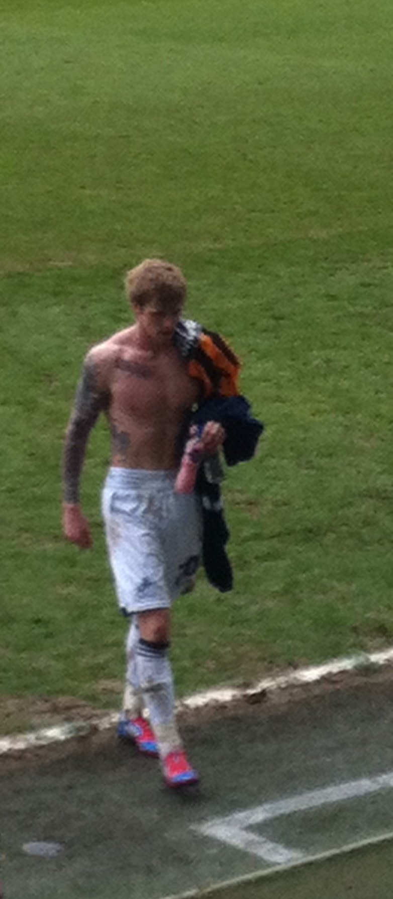 Andy Keogh playing for Millwall against Hull City.